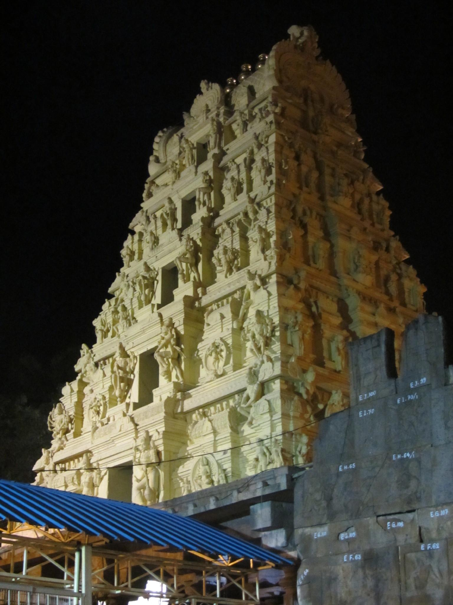 Srisailam Gopuram